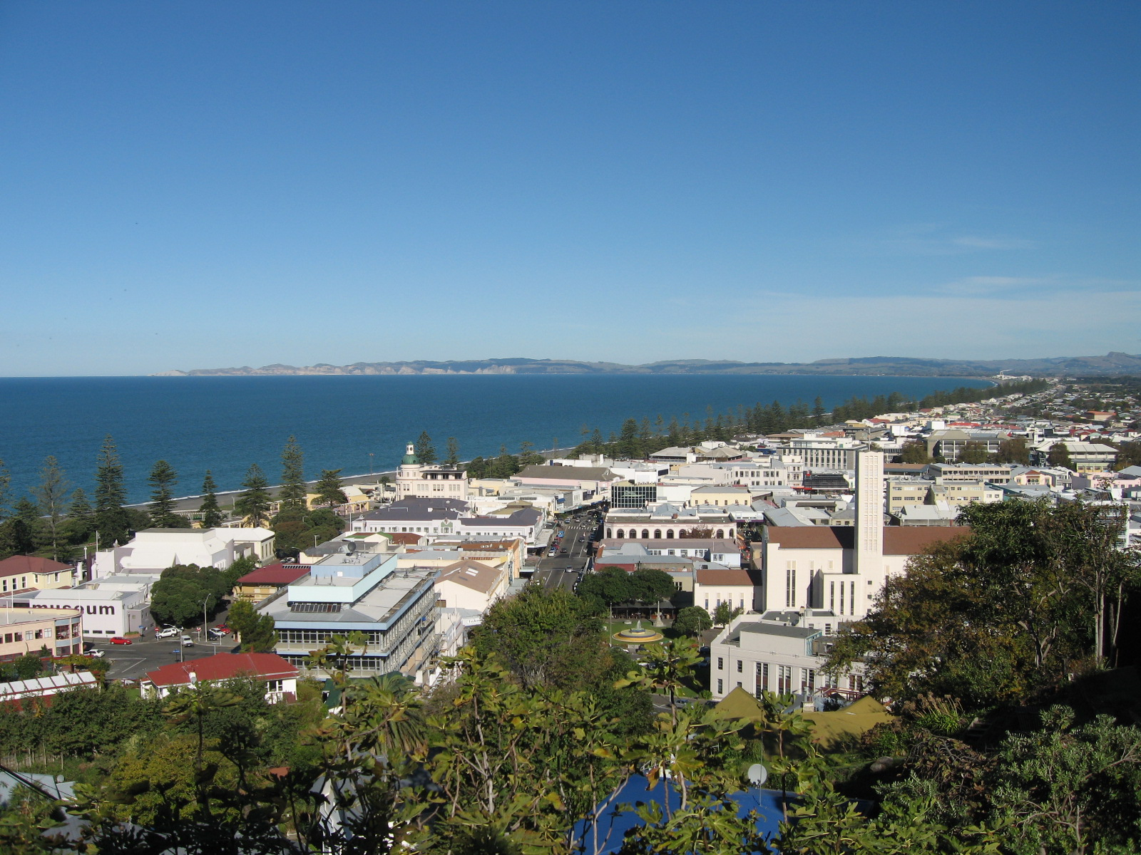 Taken from the walkway between Brewster Street and Onslow Road. Ah, the blue sky, blue Pacific and attractive buildings of Napier.